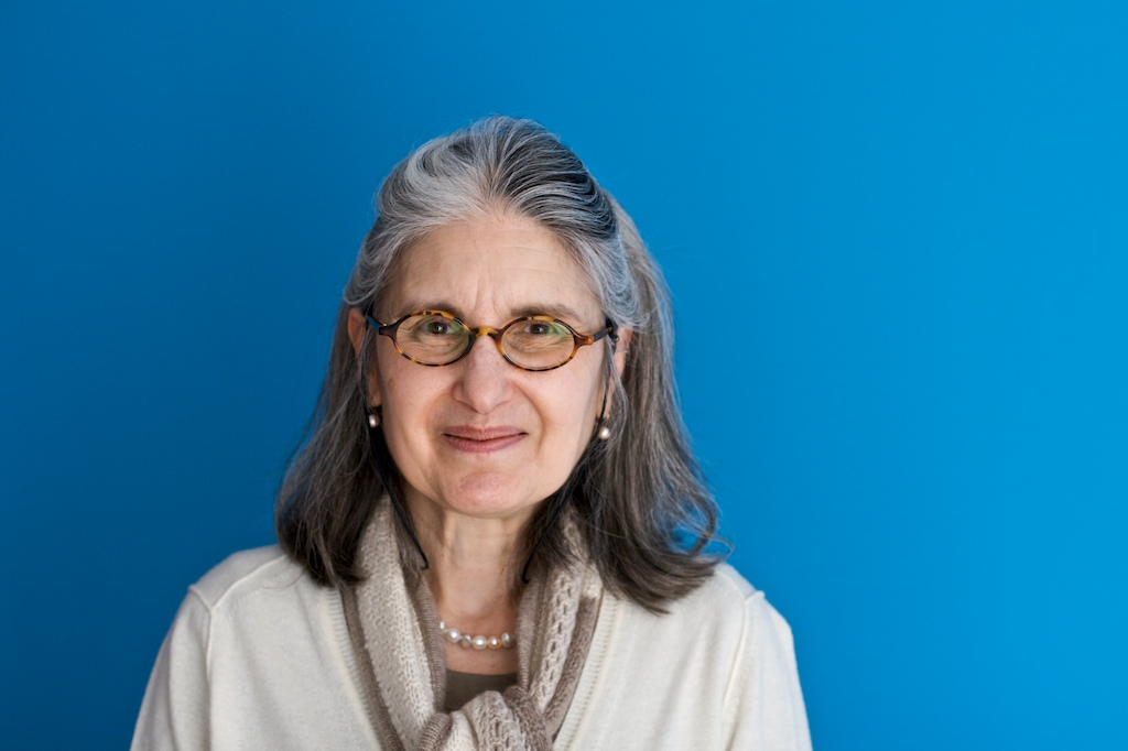 I visited the Max Planck Institute for the History of Science, quite a bit outside of the city center. Talked to Lorraine Daston. She's smarter than me. True story.